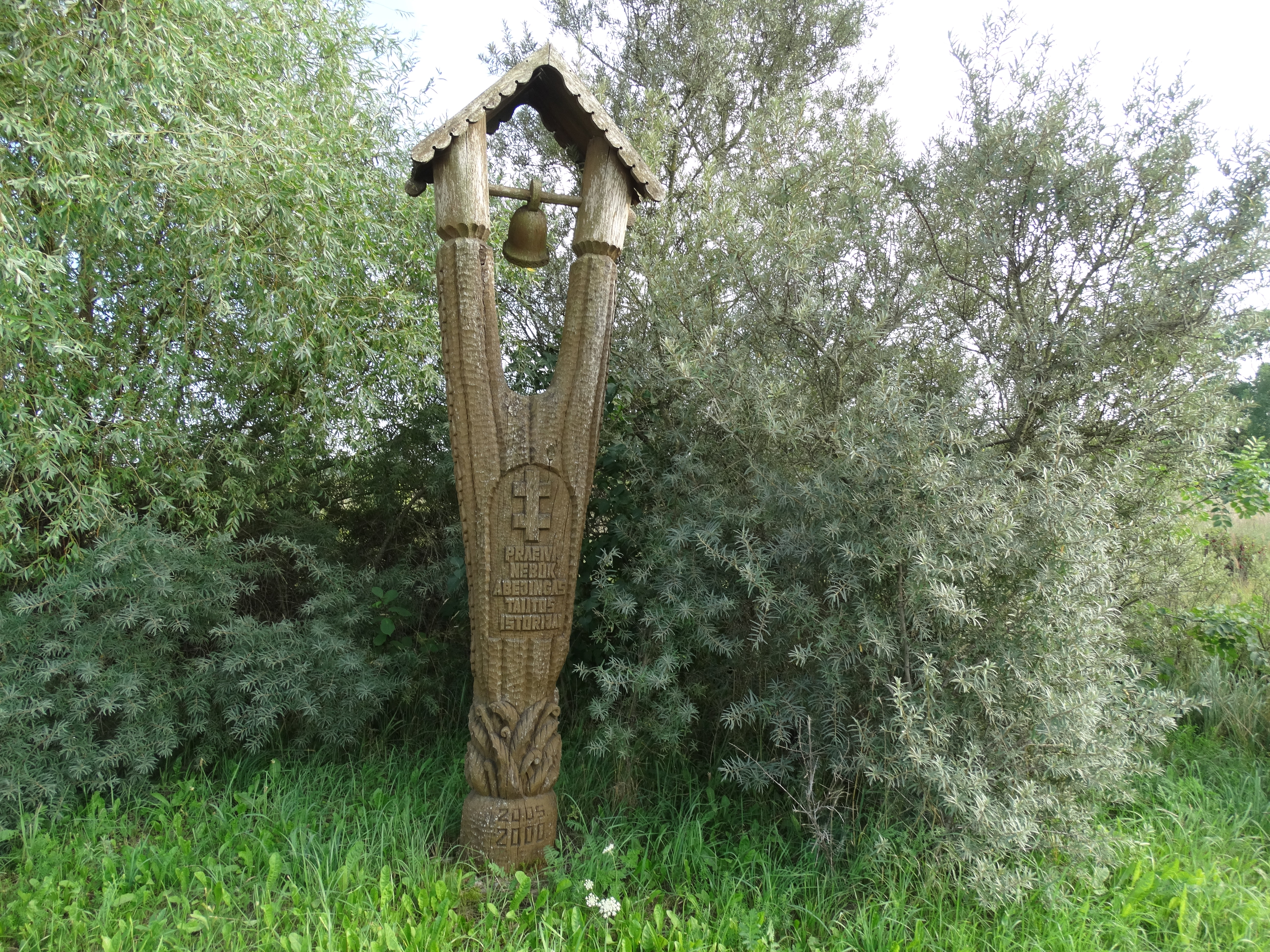 Dovydiškiai, Ukmergė District, Lithuania